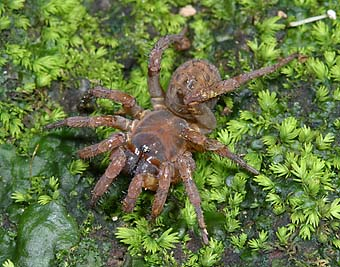 female Heptathela yanbaruensis (previously Heptathela kimurai yanbaruensis) from Okinawa.